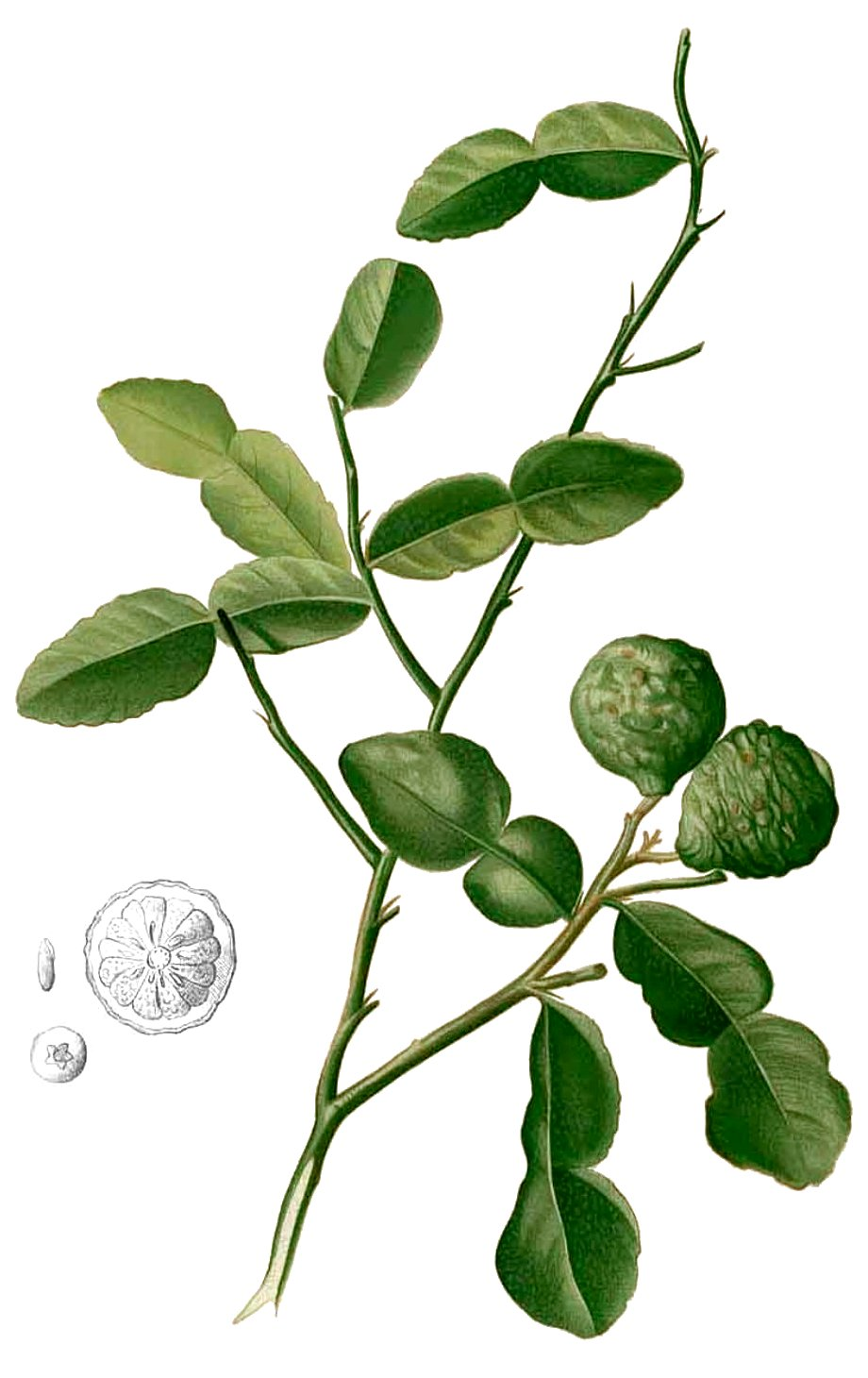 Plate from book